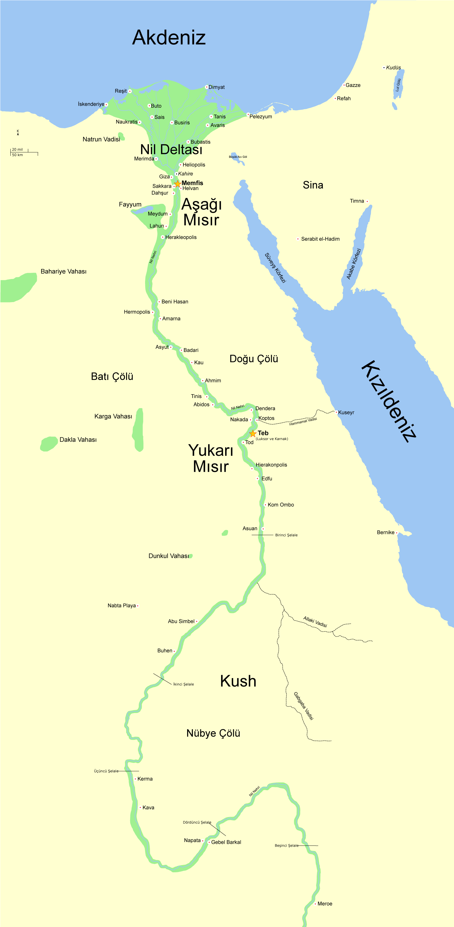 (Original description:) A map of ancient Egypt, made with Inkscape. The map shows the Nile up to the fifth cataract, and major cities and sites of the Dynastic period (c. 3150 BC to 30 BC). Cairo and Jerusalem are shown as reference cities.